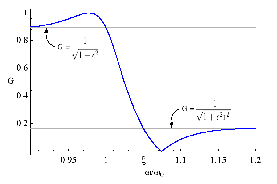 Gain of a 4th order elliptical filter versus normalized frequency with ε=0.5 and ξ=1.05. Also shown are the minimum gain in the passband and the maximum gain in the stop band, and the transition region between 1 and ξ in normalized frequency. This is a closeup of the transition region (see also Image:CauerResponse1.png)